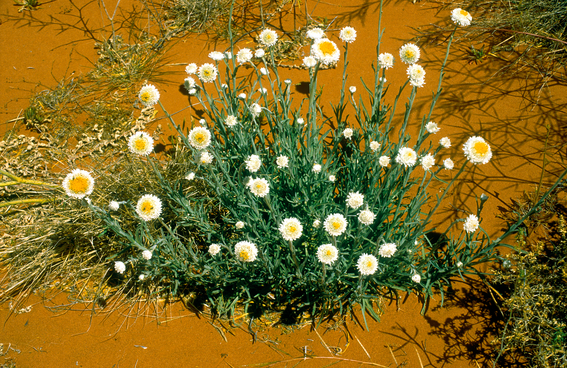 Poached egg daisies, Polycalymma stuartii, north of Alice Springs, NT. 1992.